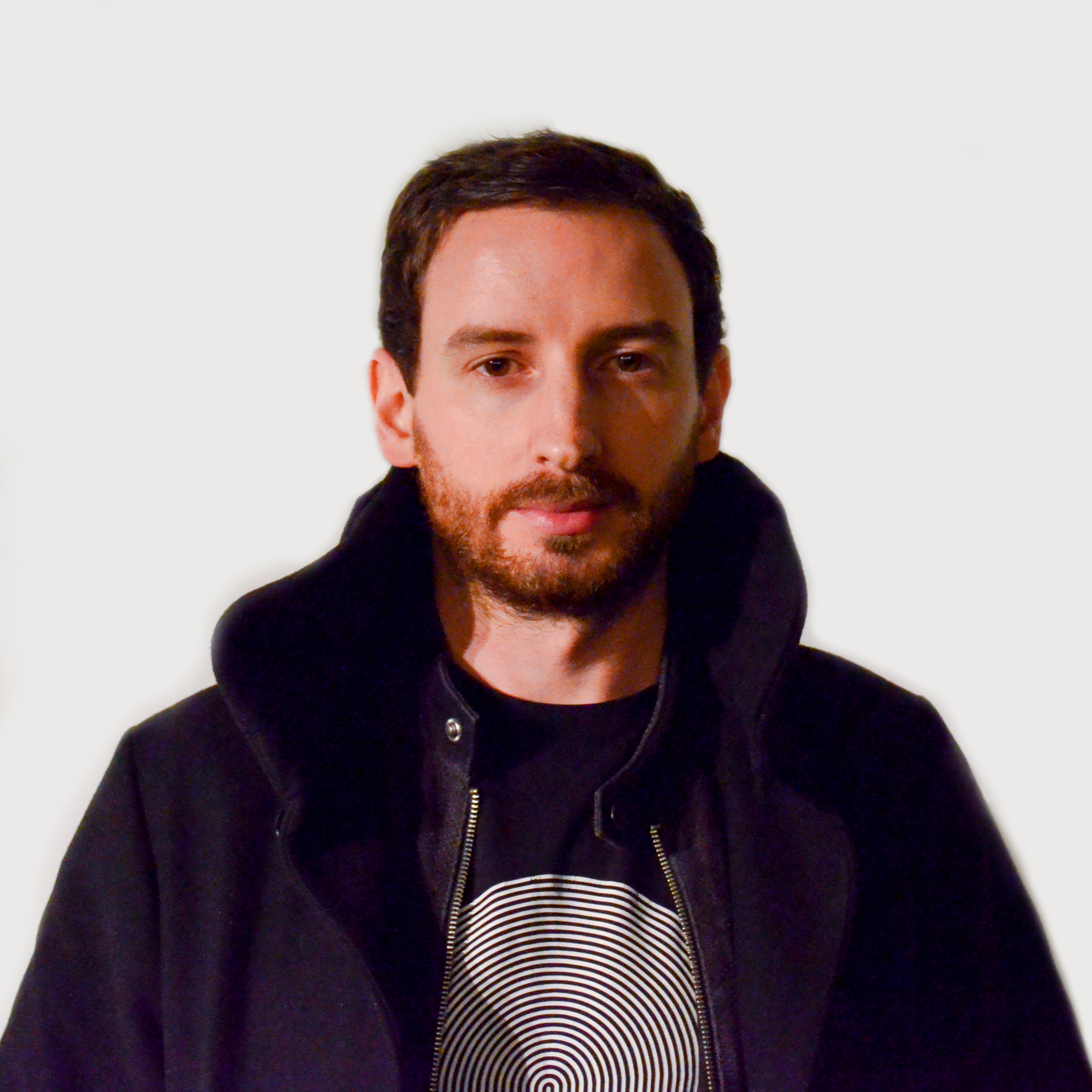 Max Cooper on The Selector Pro in Kyiv, 2017. Photo takken special for Wikipedia.